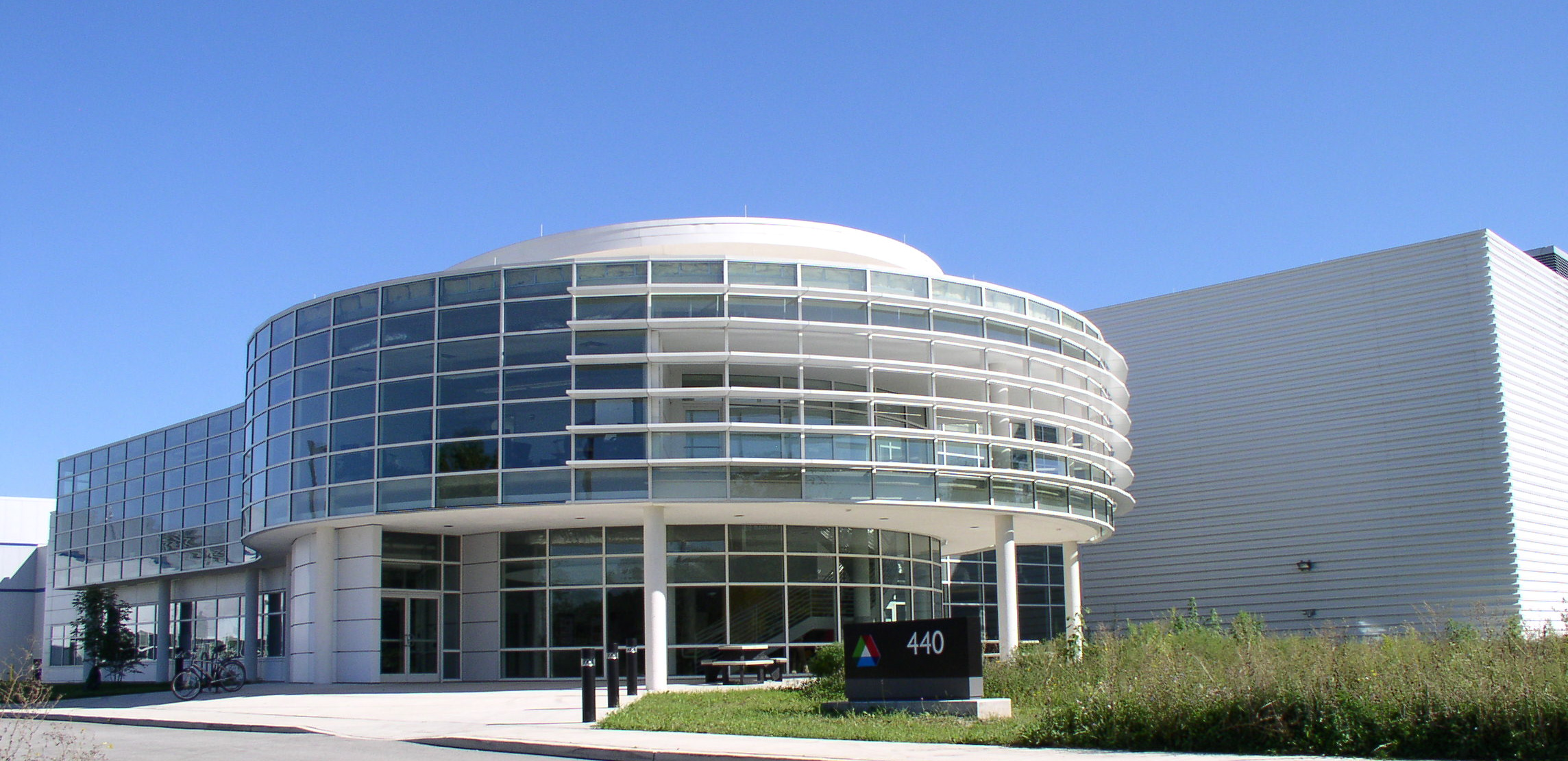 The Center for Nanoscale Materials at the Advanced Photon Source. Photo courtesy of Argonne National Laboratory.